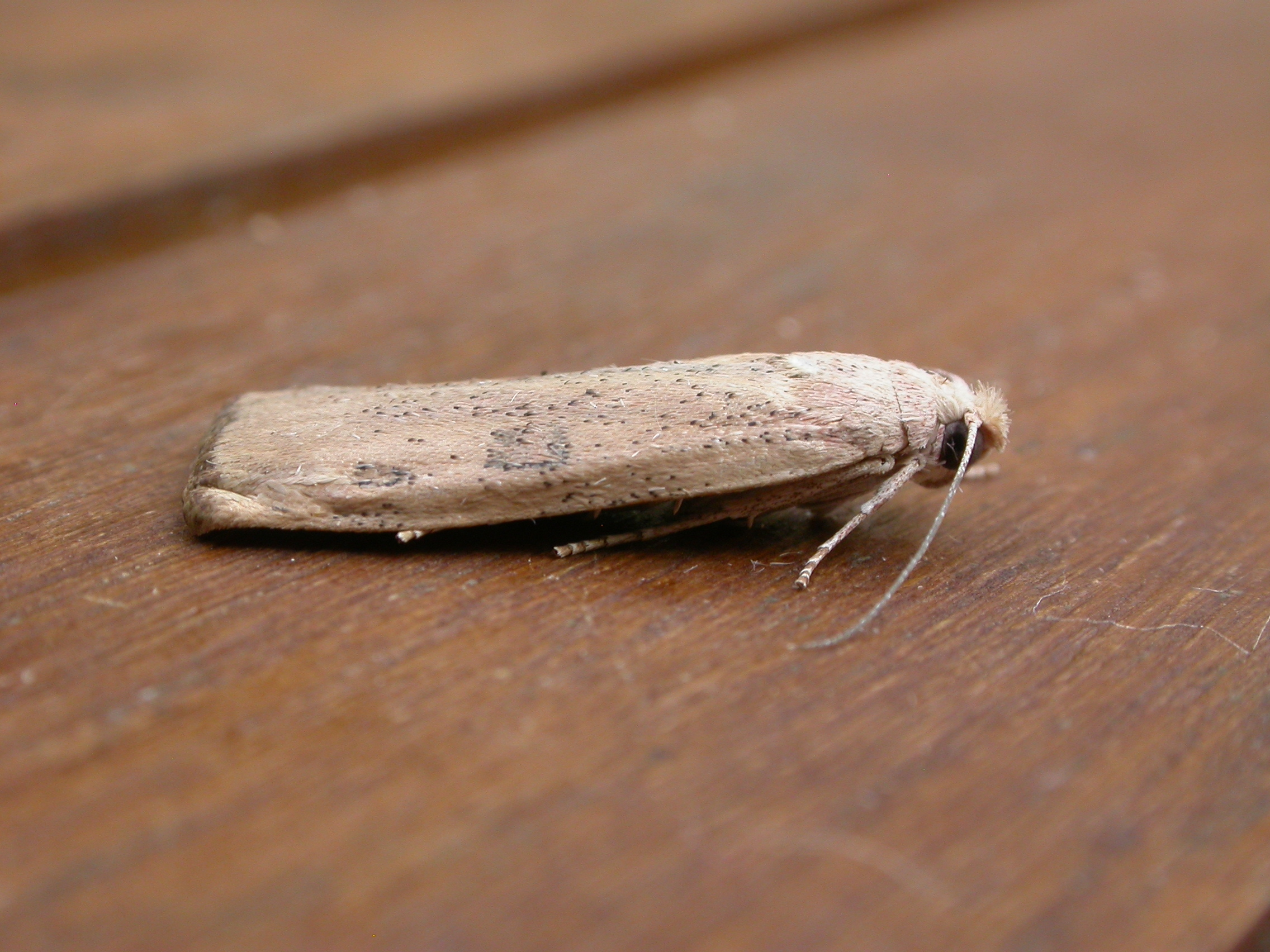 Tirathaba rufivena (Walker, 1864), Mission Beach, QLD, 19 December 2011